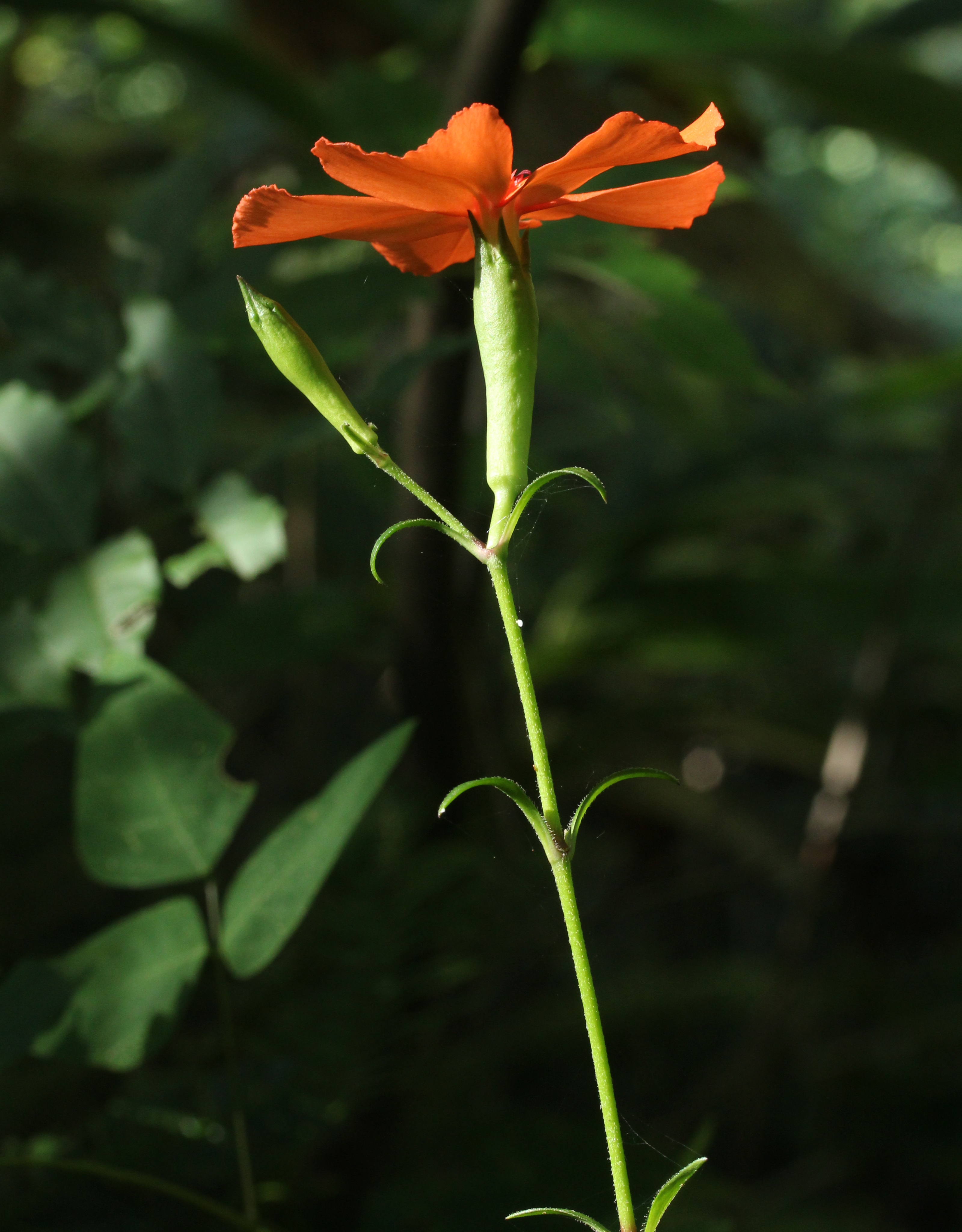 Lychnis miqueliana in Maibara, Shiga prefecture, Japan.